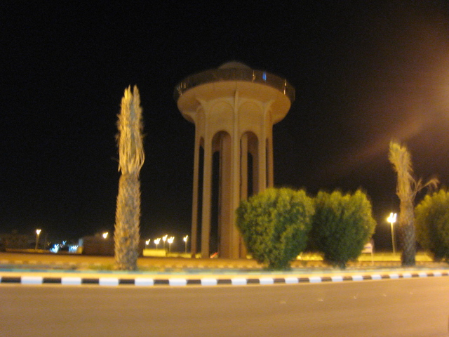 It is just a water tower I took a new one